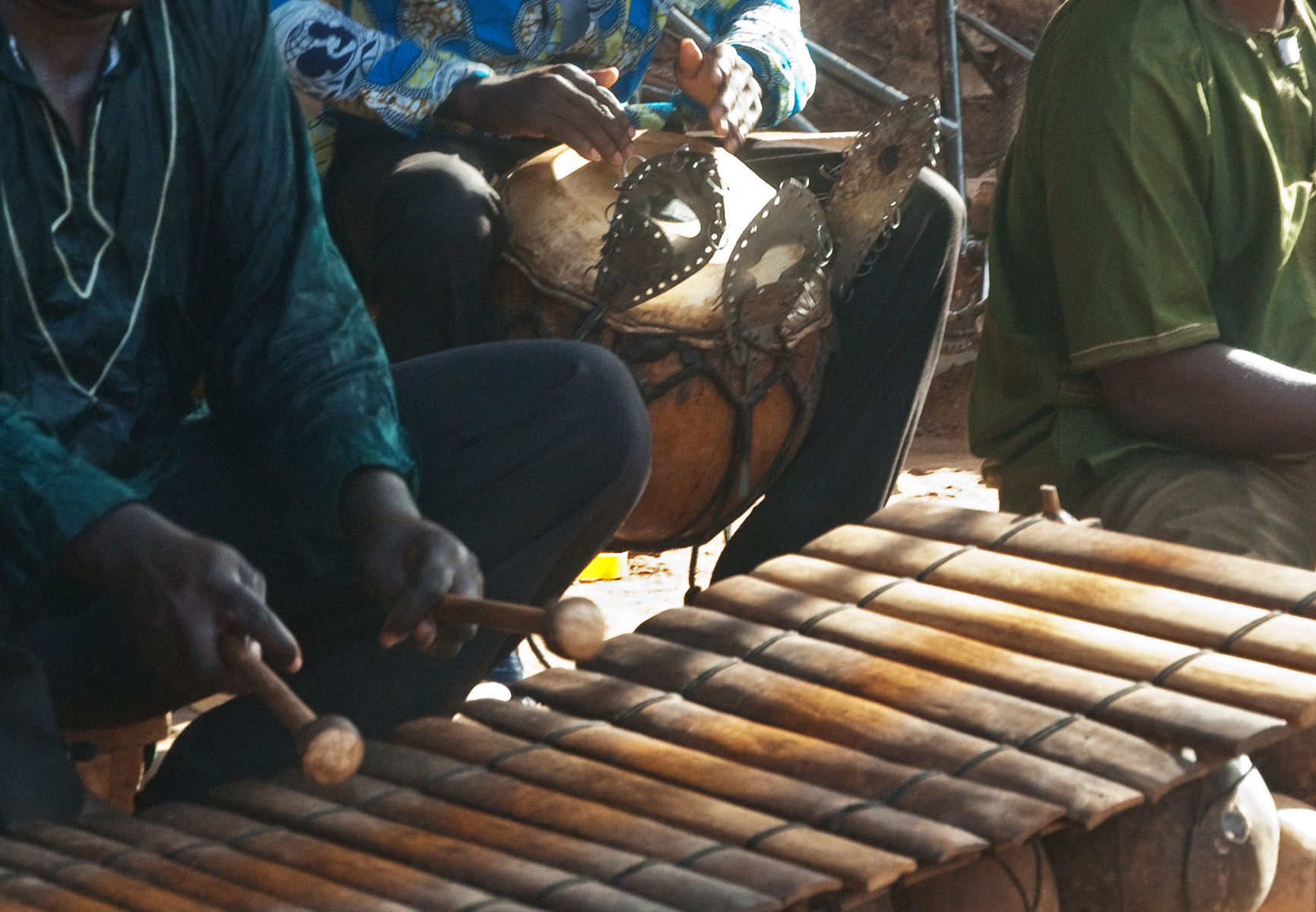 Bara drum (fitted with rattles or shakers called sékèsékè, sege-sege or ksink-ksink) accompanying balafon (Bobo-Dioulasso, Burkina Faso 2015).